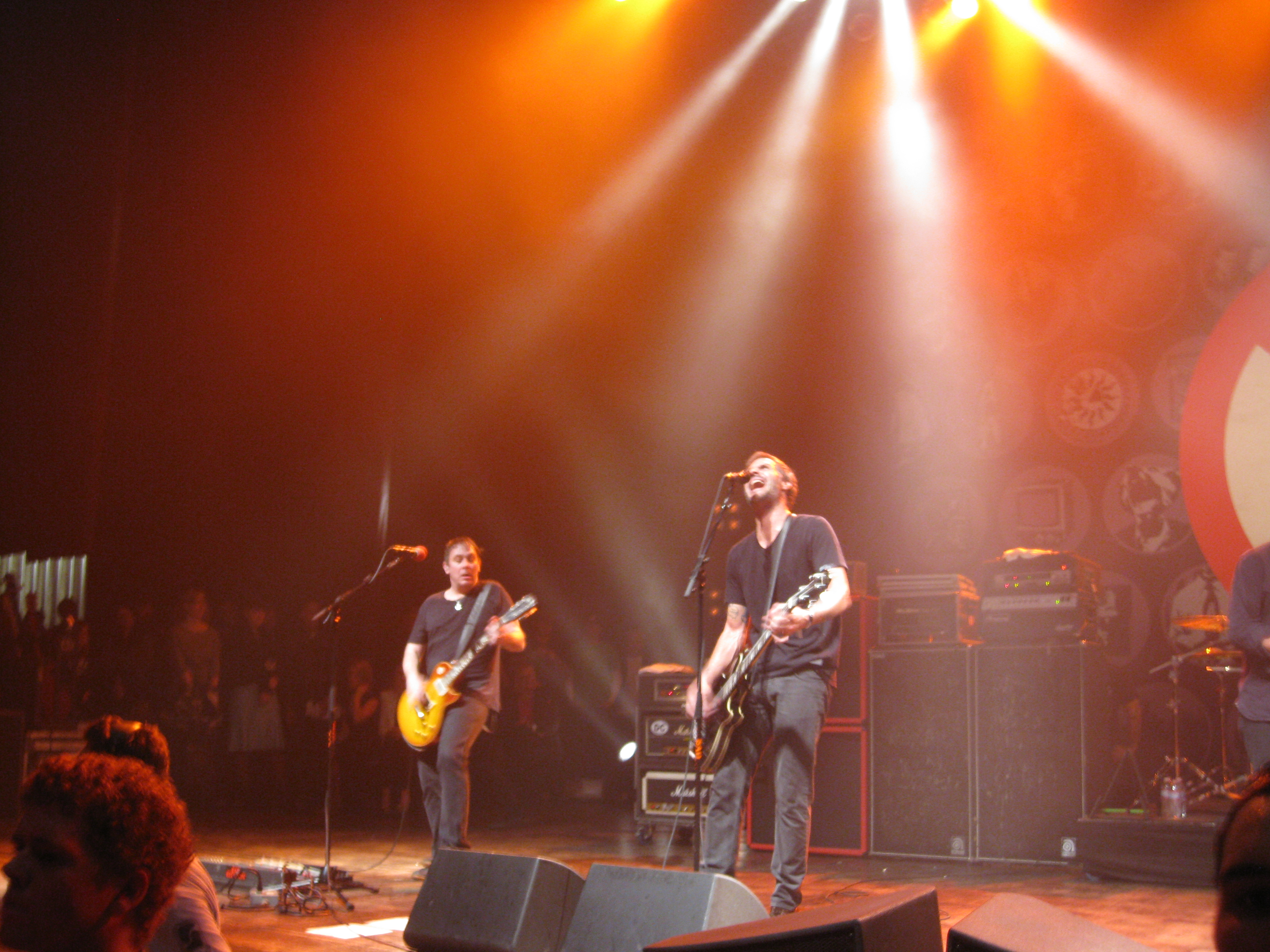 Bad Religion performing December 17, 2011 at the Santa Monica Civic Auditorium in Santa Monica, California as part of the GV30 event, showing guitarist Brian Baker (left) and bassist Jay Bentley (right).